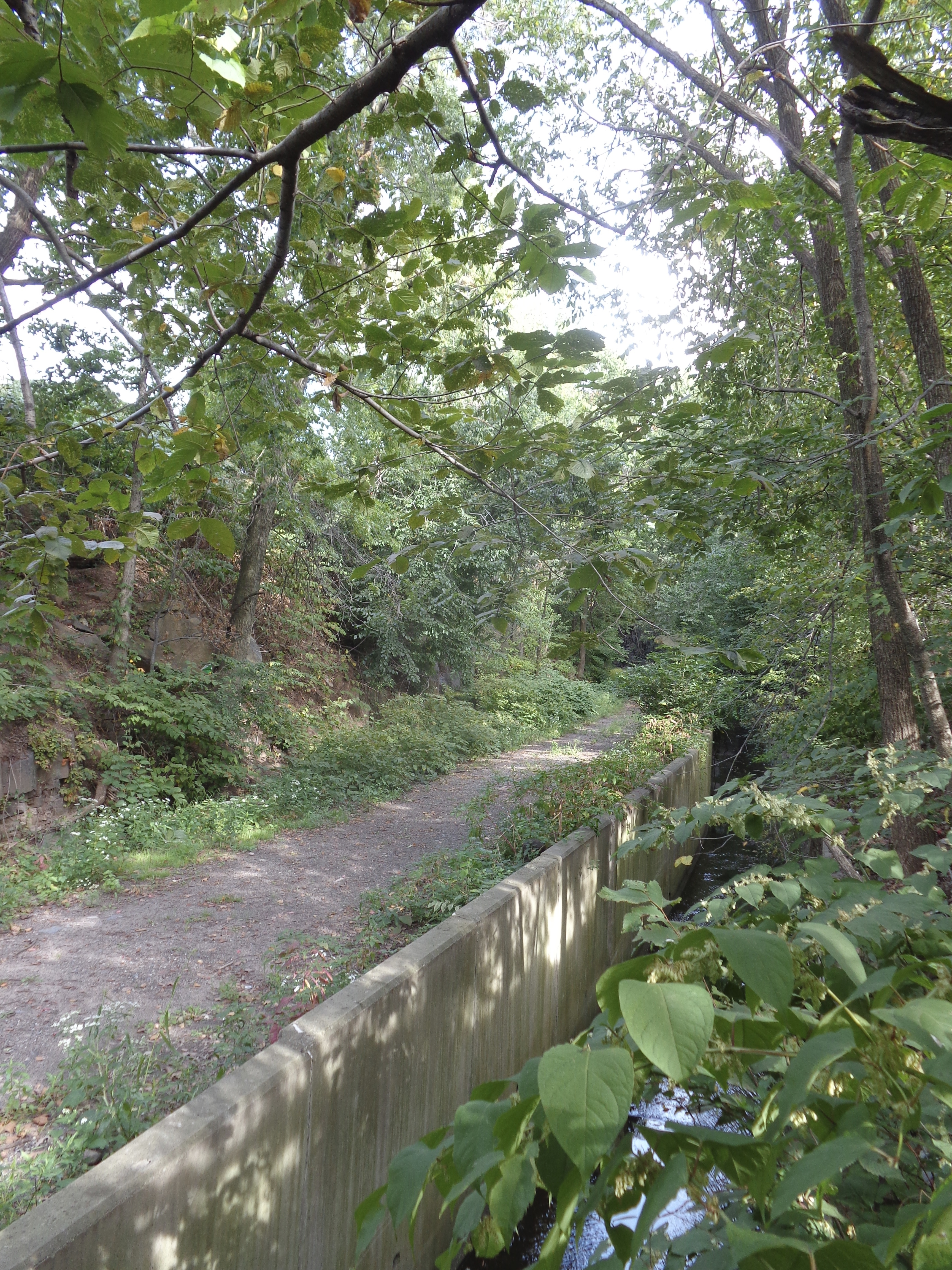 New York, Susquehanna and Western right of way near western portal of Palisades-Edgewater Tunnel passes through Fairview Cemetery